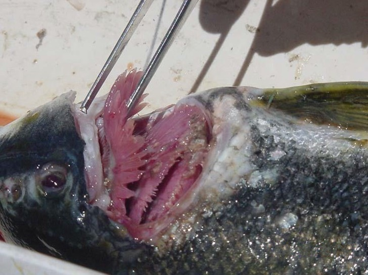 Deltistes luxatus gills infected with Flavobacterium columnare USGS photo